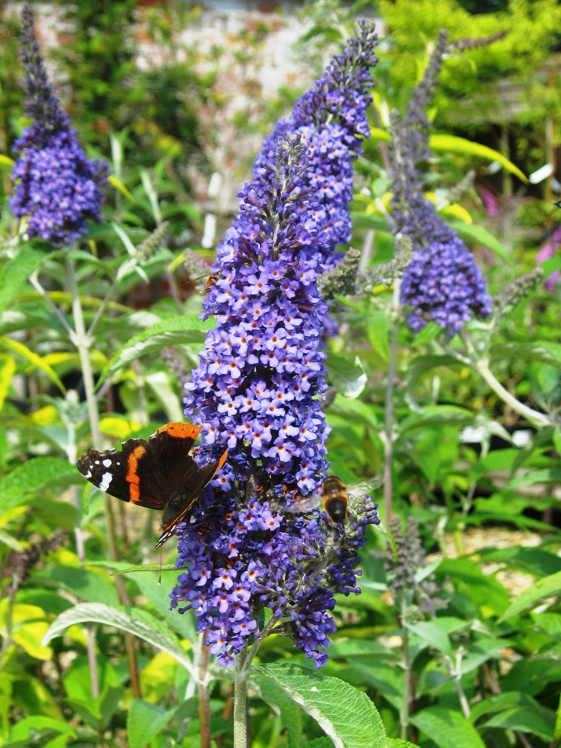 Photo of Buddleja davidii 'Southcombe Splendour' taken at Longstock Park nursery, UK, national collection holders.